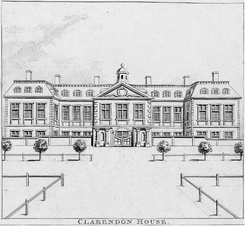 Clarendon House, Piccadilly, London (built circa 1667, demolished circa 1683), viewed from St James's Street. 1798 engraving by Nathaniel Smith and John Thomas Smith of London, copied from an earlier print in collection of Thomas Allen Esq. Published in Smith's "Antiquities of London" 1798. Below image is a section of an old map showing the position of Clarence House facing directly down St James's Street. Below which is the following text: "This view was copied from a rare print in the choice collection of Thomas Allen Esqr. to whom, for this and many other favors, the engraver of this work feels himself highly obliged. The above section shewing the relative situation of Clarendon House, was taken from a map of London (supposed to be unique) in the possession of John Charles Crowle Esqr. whose philanthropy is not exceeded by the splendor of the Illustrated Clarendon's History in which he has inserted it". In small print below: "See Clarendon p.512 and Pennant's London 3 Edit." Below that in small print: "Published August 10 1798 by N. Smith, Rembrandts Head, Gt Mays Buildings, St Martins Lane & J. T. Smith, 40 Frith Street, Soho".